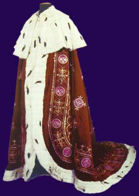 Royal mantle of Serbia used on king Petr I Karađorđević coronation in 1904.